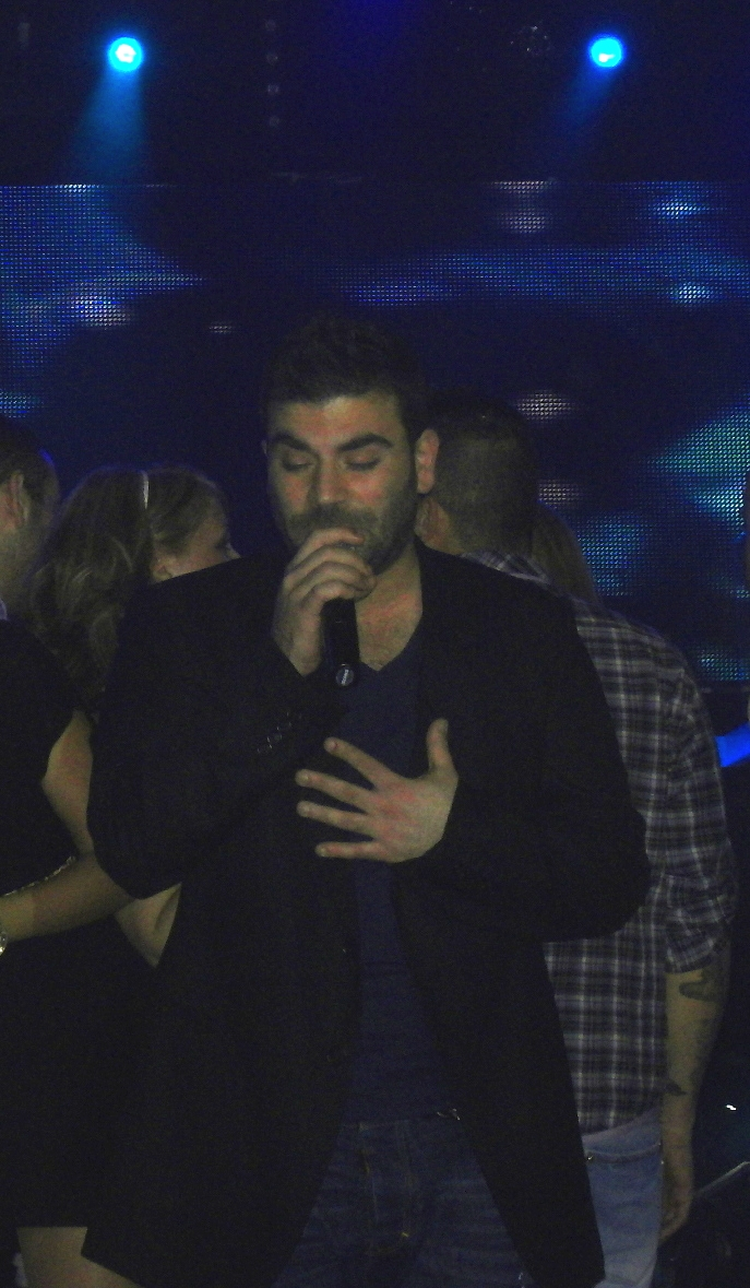 Pantelis Pantelidis, Theatro Music Hall, Athens